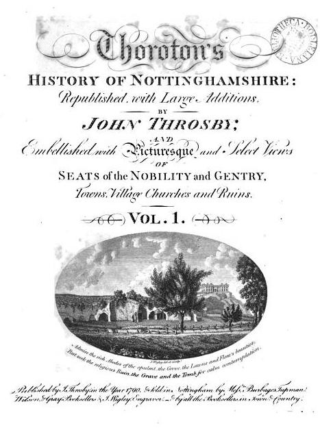 "Thoroton's History of Nottinghamshire, Republished, with Large Additions," by John Throsby, based on an earlier work by Nottinghamshire historian Robert Thoroton, for whom the county's Thoroton Society is named. Dedication by Throsby to Henry Fiennes Pelham-Clinton, 2nd Duke of Newcastle-under-Lyne, 9th Earl of Lincoln, with date of 1 October 1790.